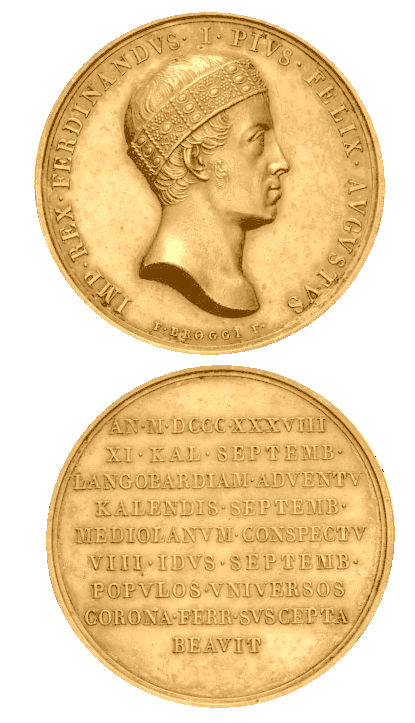 Medal to commemorate the coronation of Ferdinand III IN 1838